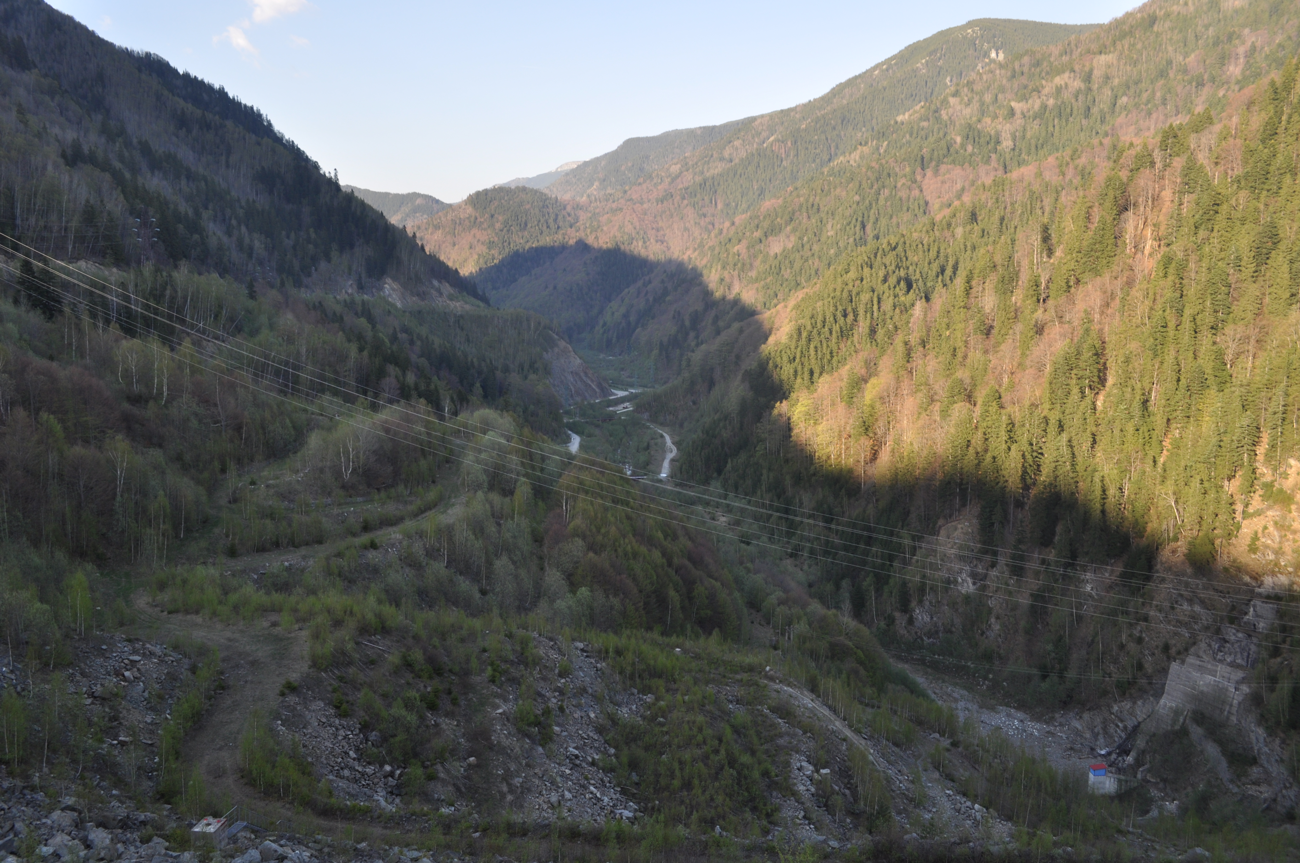 Gura Apelor dam and reservoir, Hunedoara counrty, Romania